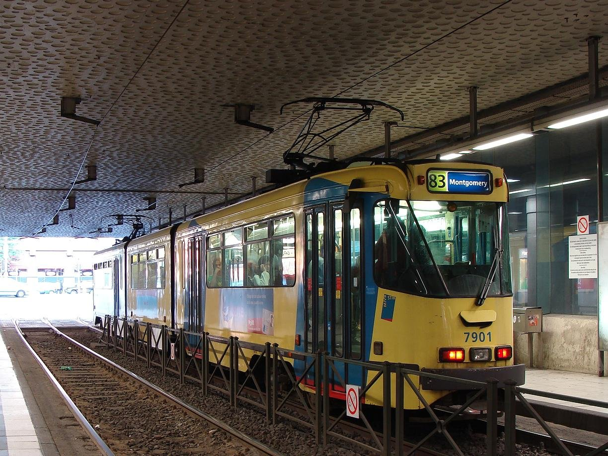 Motor coach 7901 on line 83 towards Montgomery